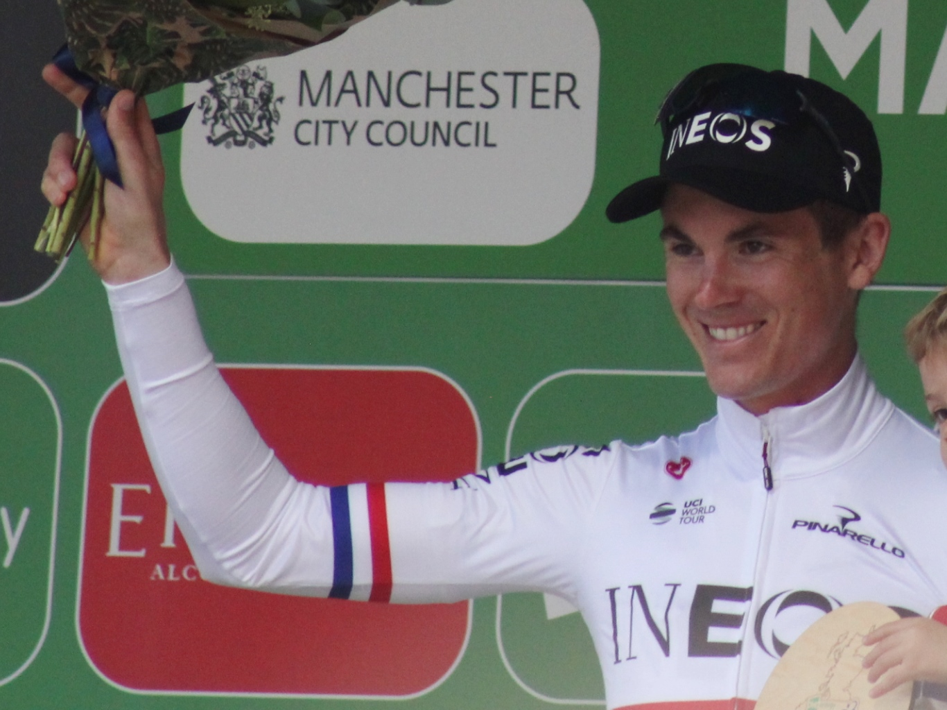 Ben Swift on the podium in Manchester at the end of the 2019 Tour of Britain in which he was the fastest British rider.